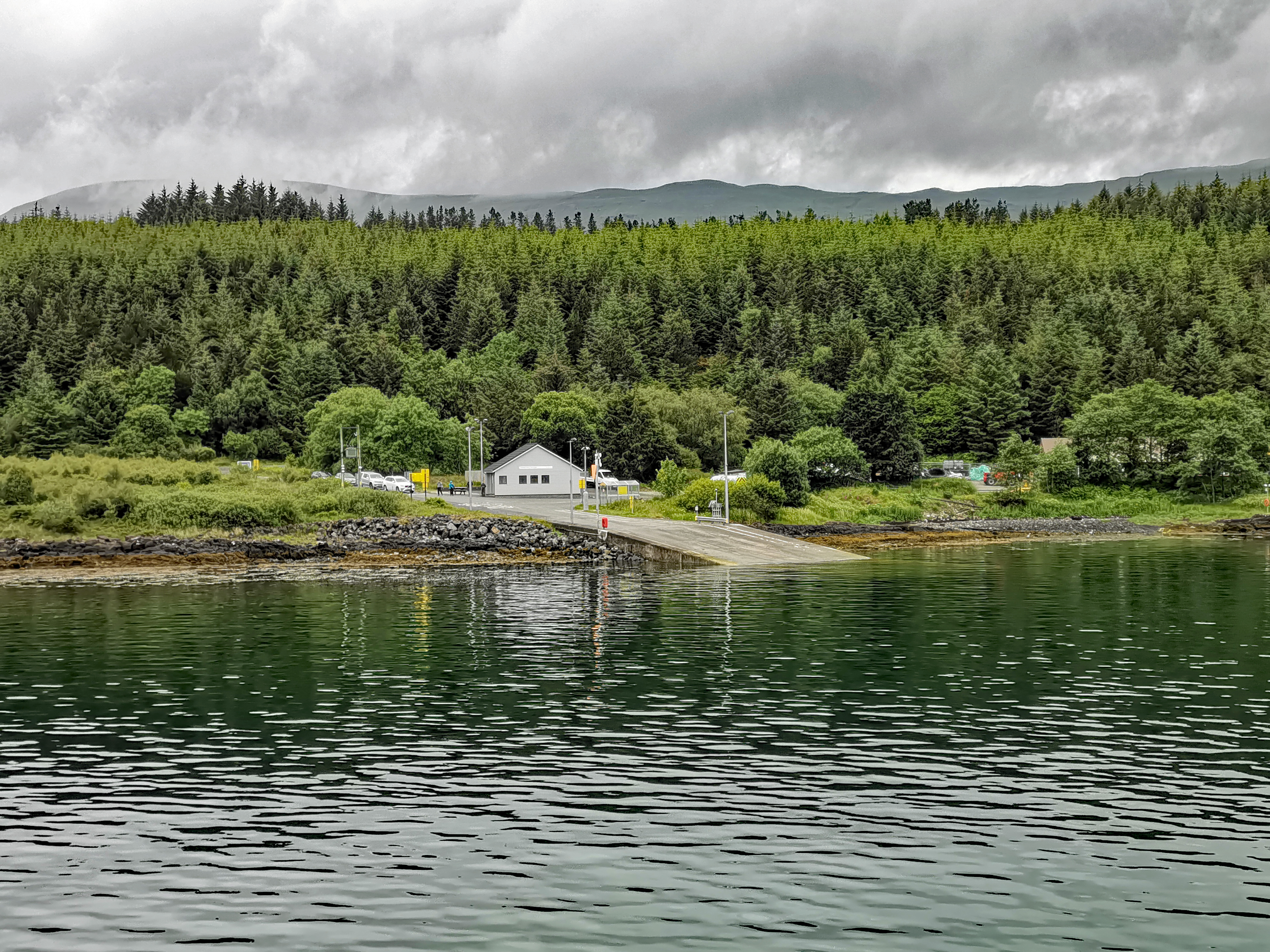 Isle of Mull (Inner Hebrides, Scotland, UK)